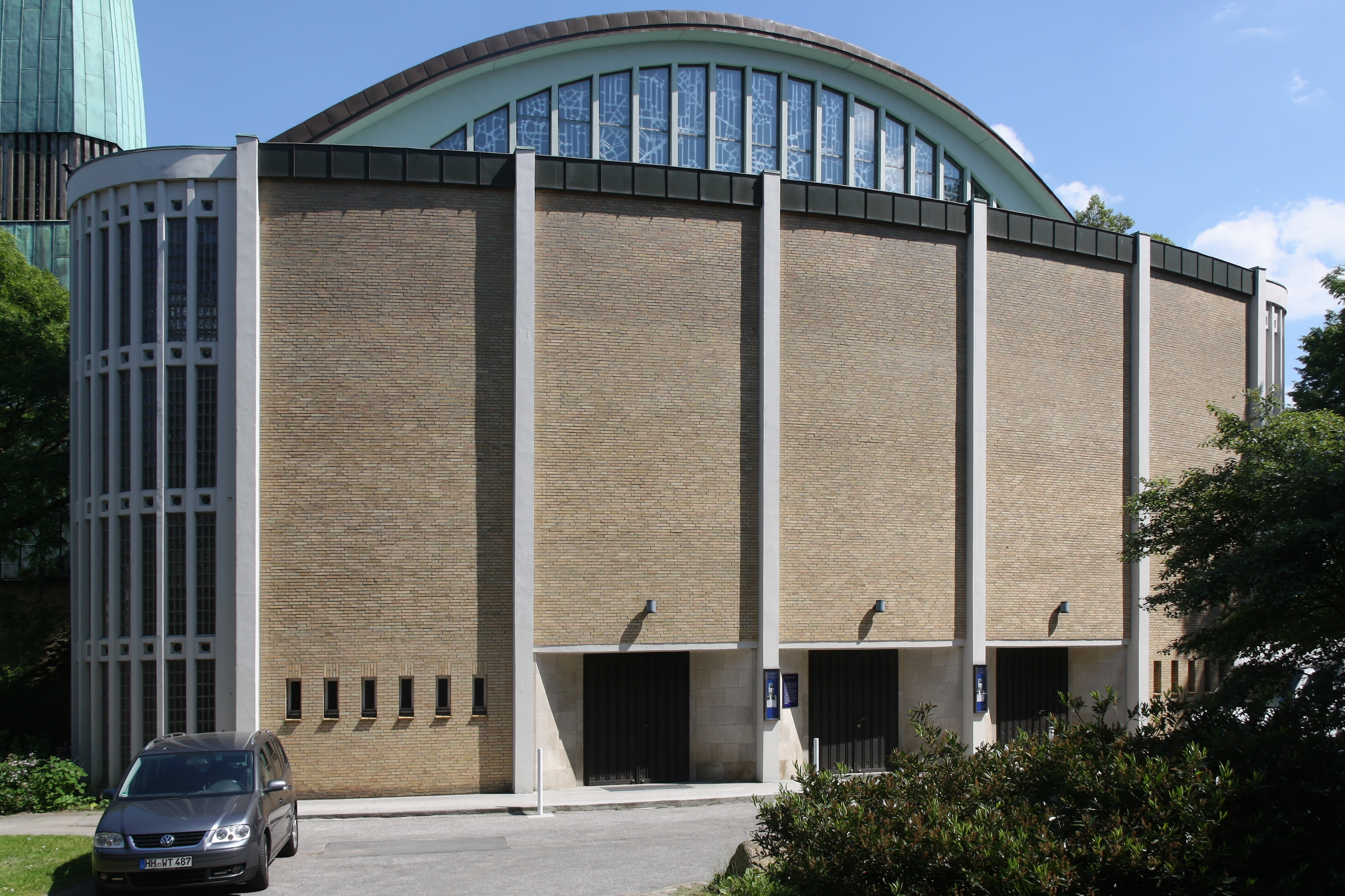 St.Mary's Church in Hamburg-Ohlsdorf, western side